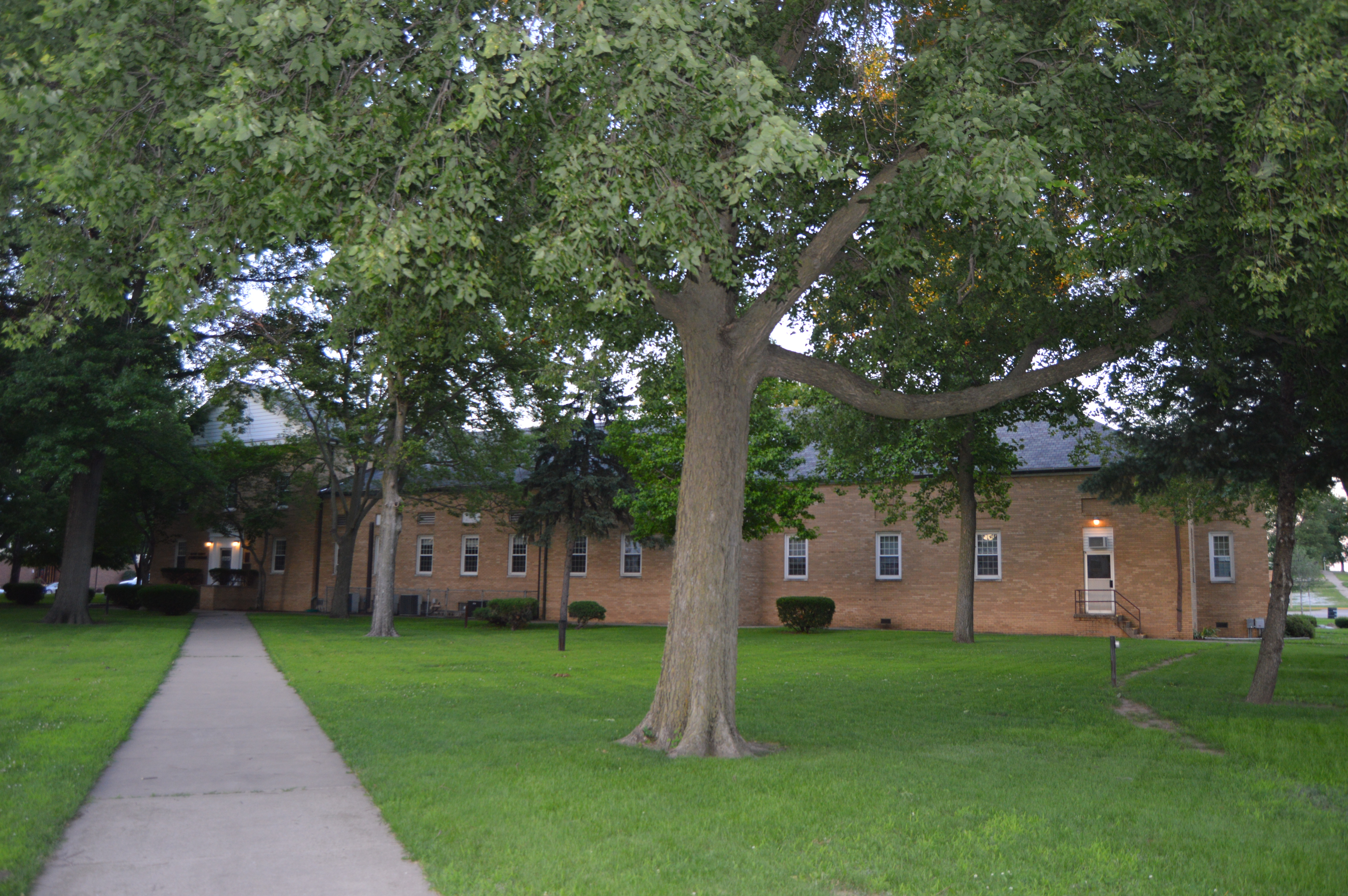 Front of the Mason County Courthouse, located on the courthouse square in downtown Havana, Illinois, United States. Although built in 1882, it is a mix of earlier and later styles: the plans were 31 years old at the time of construction, and it was heavily modified 80 years later.